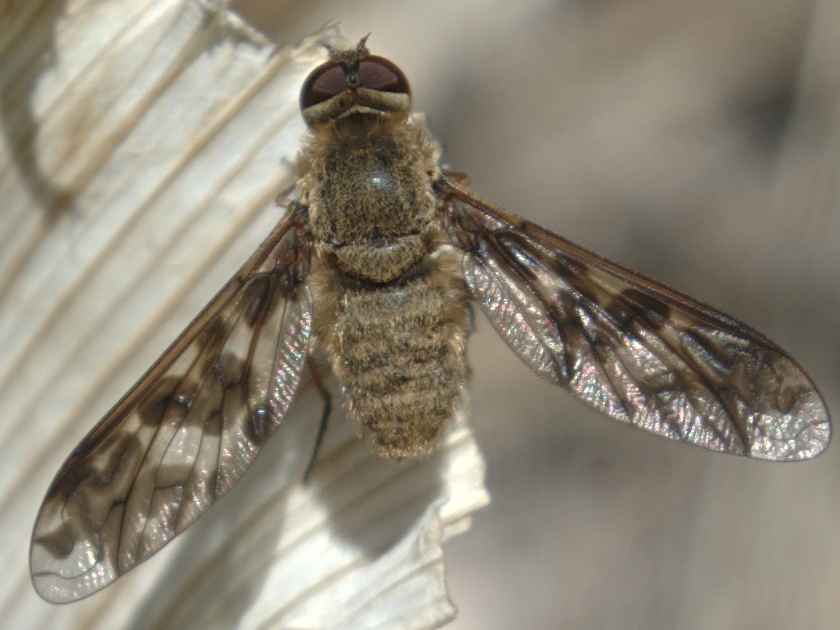 Bee fly of the genus Dipalta, probably D. serpentina, on bearded iris leaf, my garden, Española, New Mexico. Most likely the same individual as File:Dipalta face1.jpg. Thanks to Andy Calderwood at for identification.